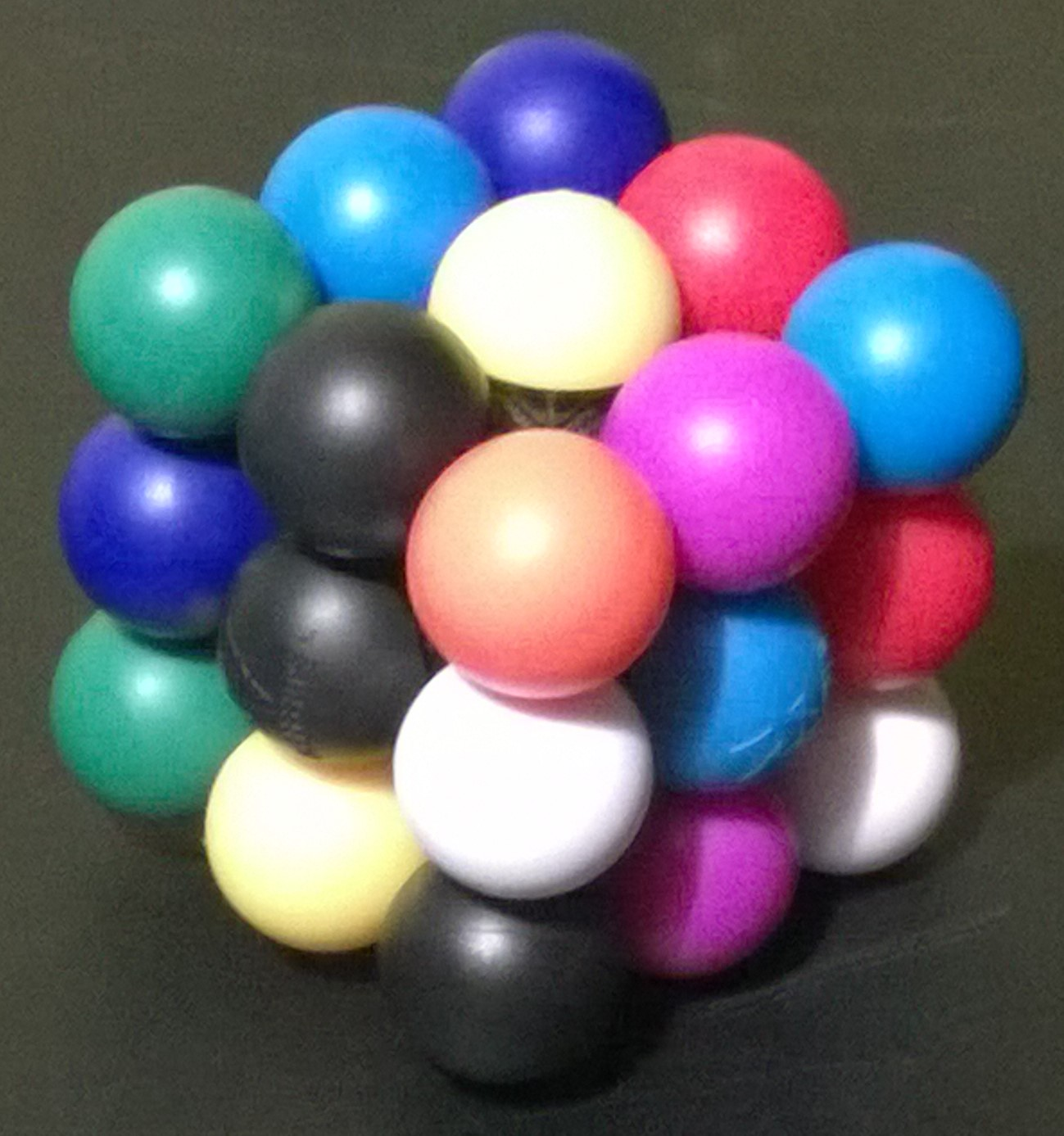 Meffert's Molecube, scrambled.